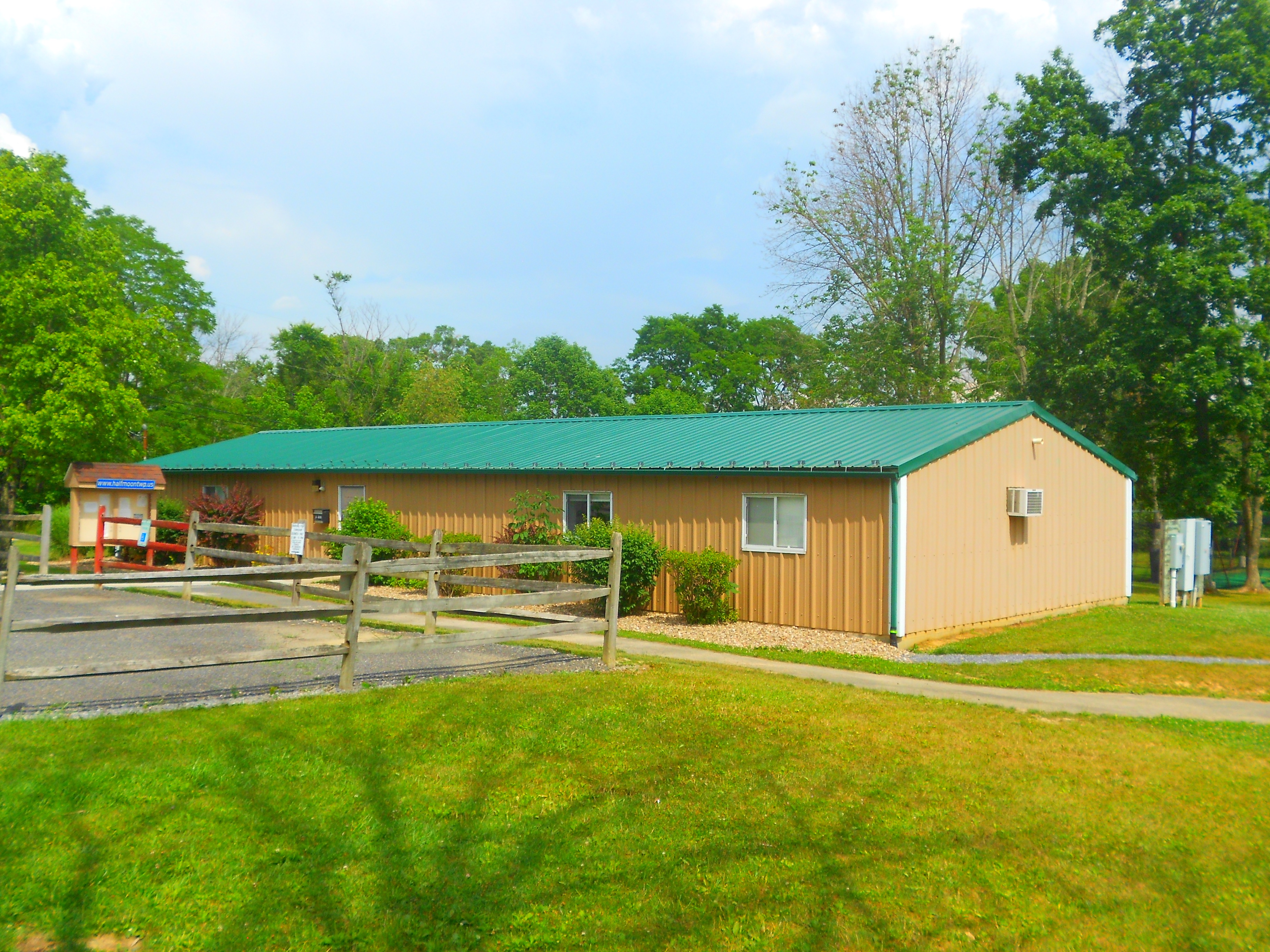 Municipal building in Halfmoon Township, Centre County, Pennsylvania